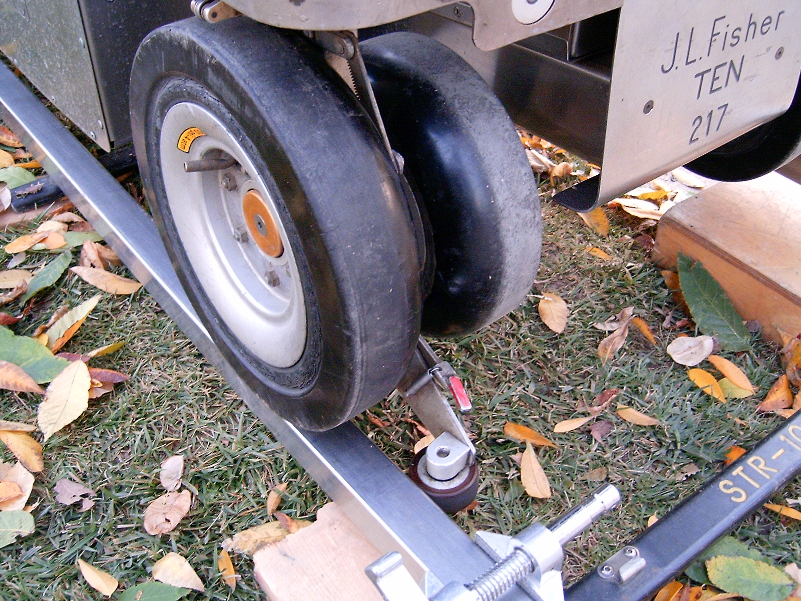 Close-up of a J.L. Fisher "Model 10" camera dolly wheel attatched to some track, with the two small inner wheels extended and locked. (The second inner wheel is not visible.)